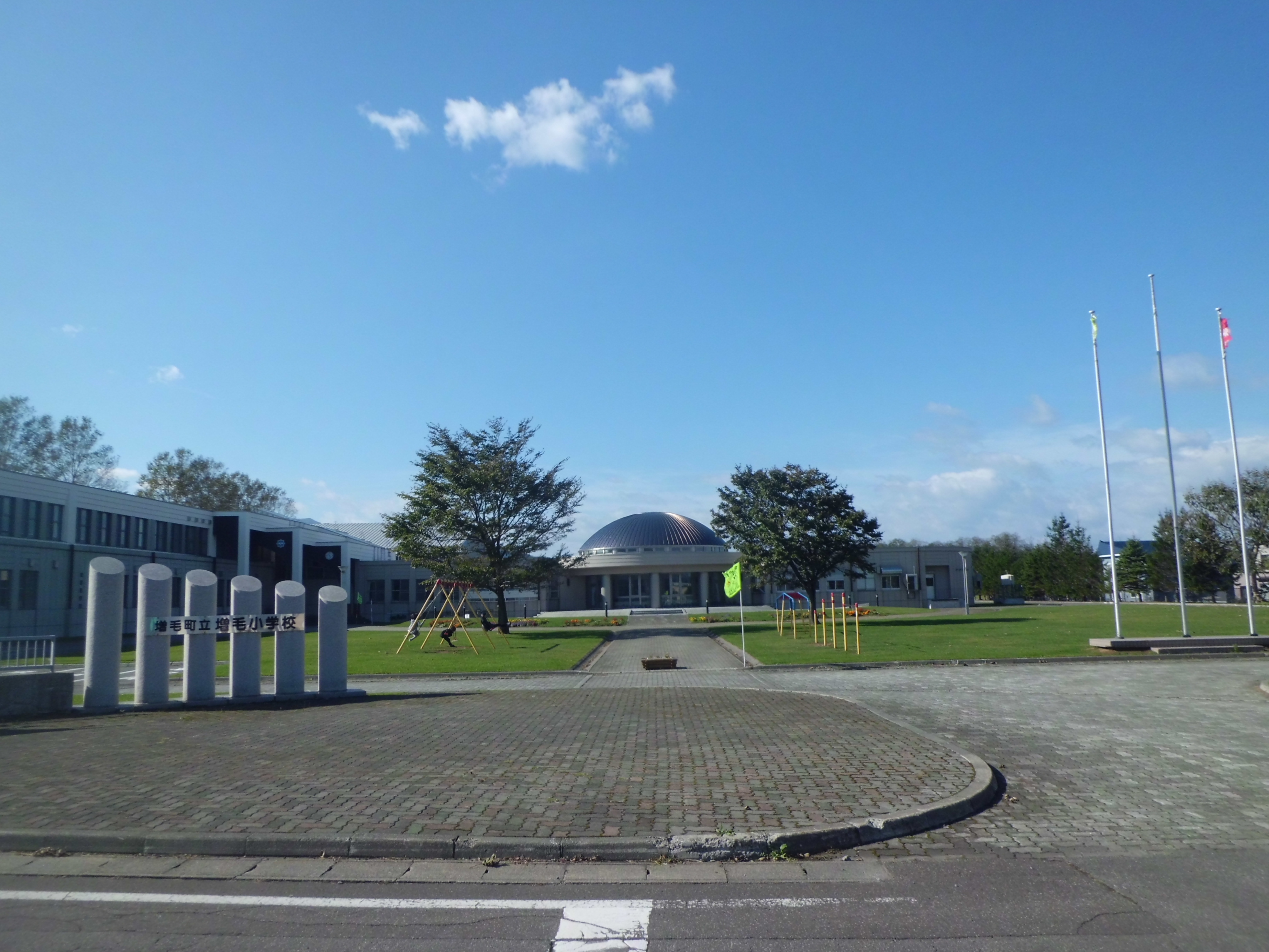 Mashike Town Mashike Elementary School